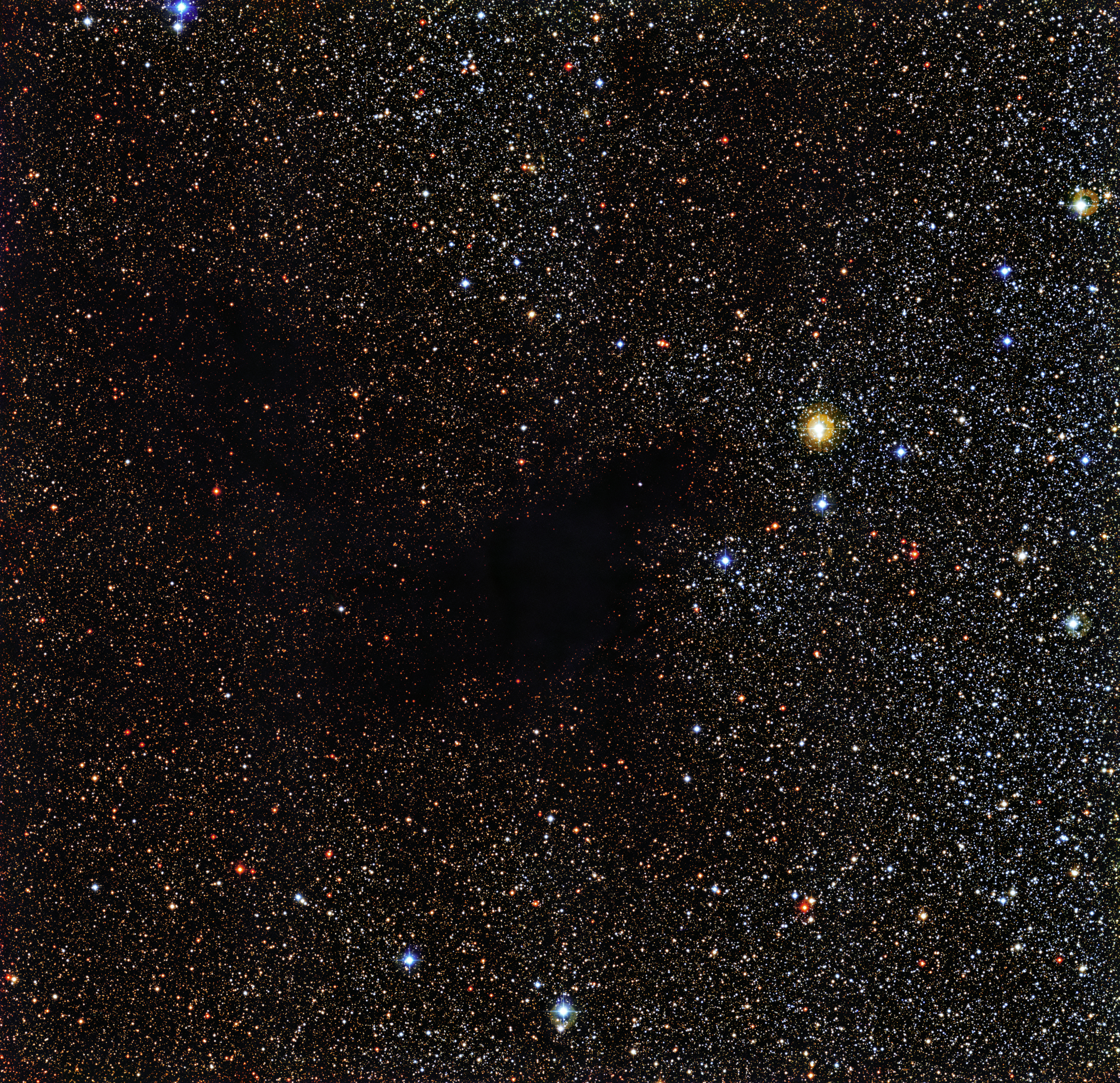 The Wide Field Imager (WFI) on the MPG/ESO 2.2-metre telescope at the La Silla Observatory in Chile snapped this image of the dark nebula LDN 483. The object is a region of space clogged with gas and dust. These materials are dense enough to effectively eclipse the light of background stars. LDN 483 is located about 700 light-years away in the constellation of Serpens (The Serpent).